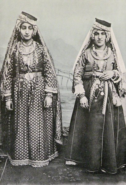 Armenian women in Diyarbekir